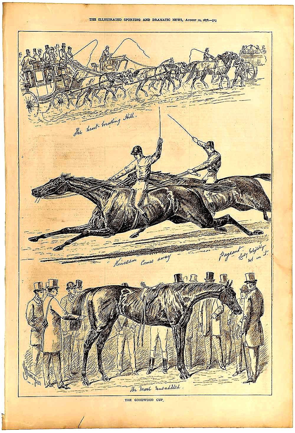 The Goodwood Cup: The Heart-Breaking Hill. / Kincsem Comes Away. / The Mare Unsaddled. - 1878